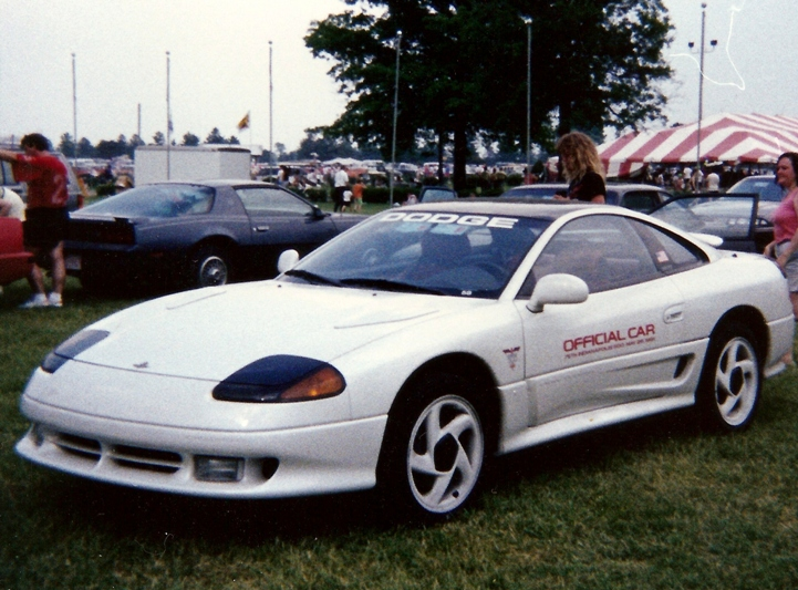 Photo of a 1991 Dodge Stealth; 1991 Indianapolis 500 Official Car; used for Festival purposes